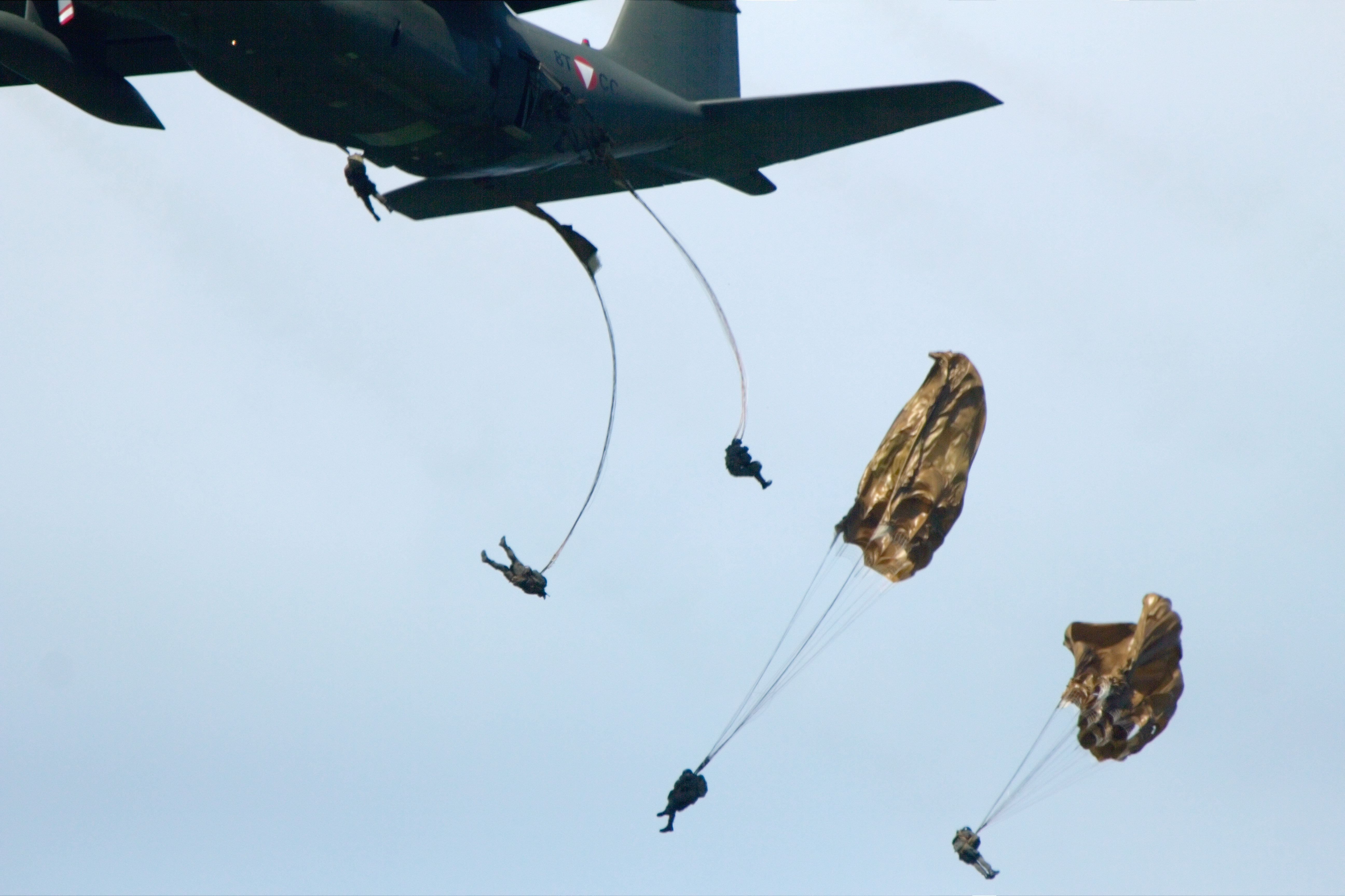 Demonstration of Bundesheer at Airpower11